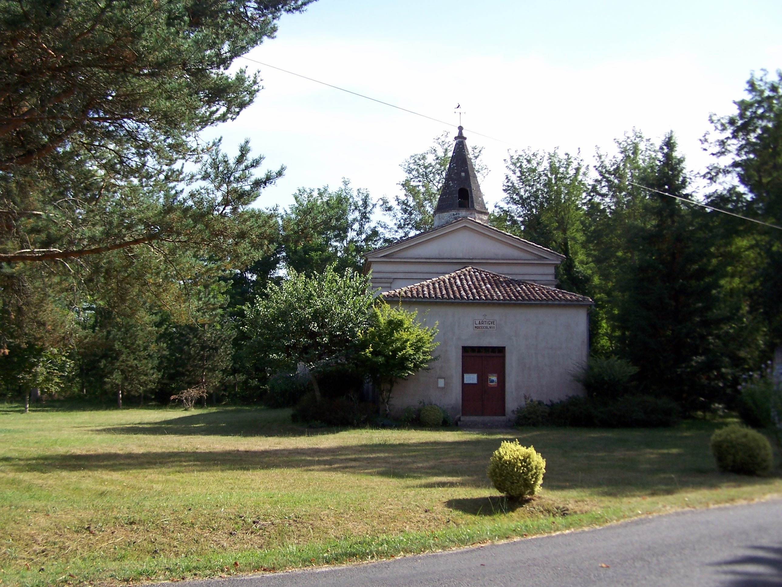 Church Saint-Romain of Lartigue (Gironde, France)